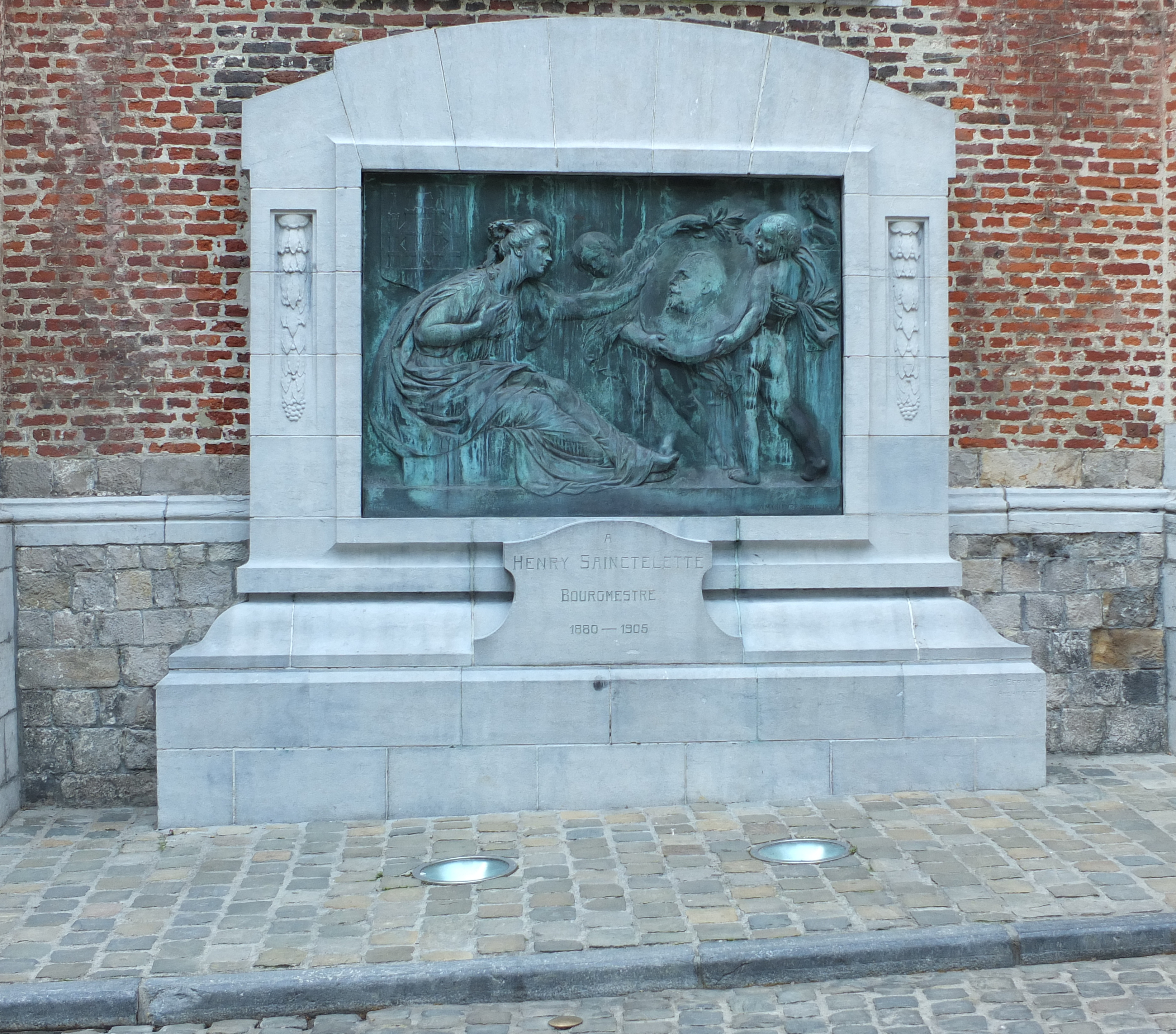 Monument (1930) by Camille Lefevre (1853 - 1933), at the town hall of Mons (Belgium) in honour of mayor Henri Sainctelette